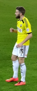 Stuart Dallas playing for Brentford vs Cardiff City in Cardiff, December 2014.